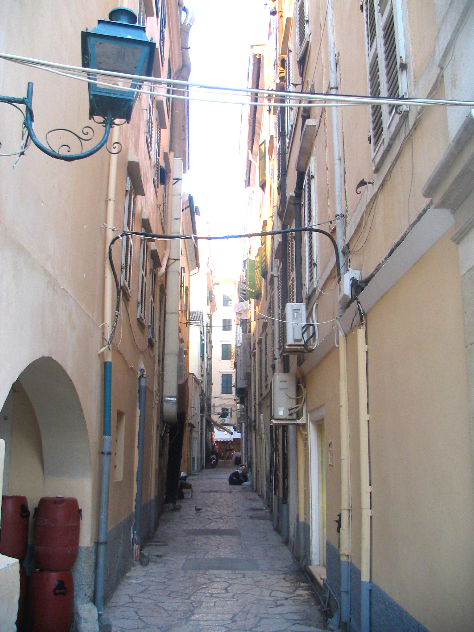 Odós Ipeirou in Corfu Old town